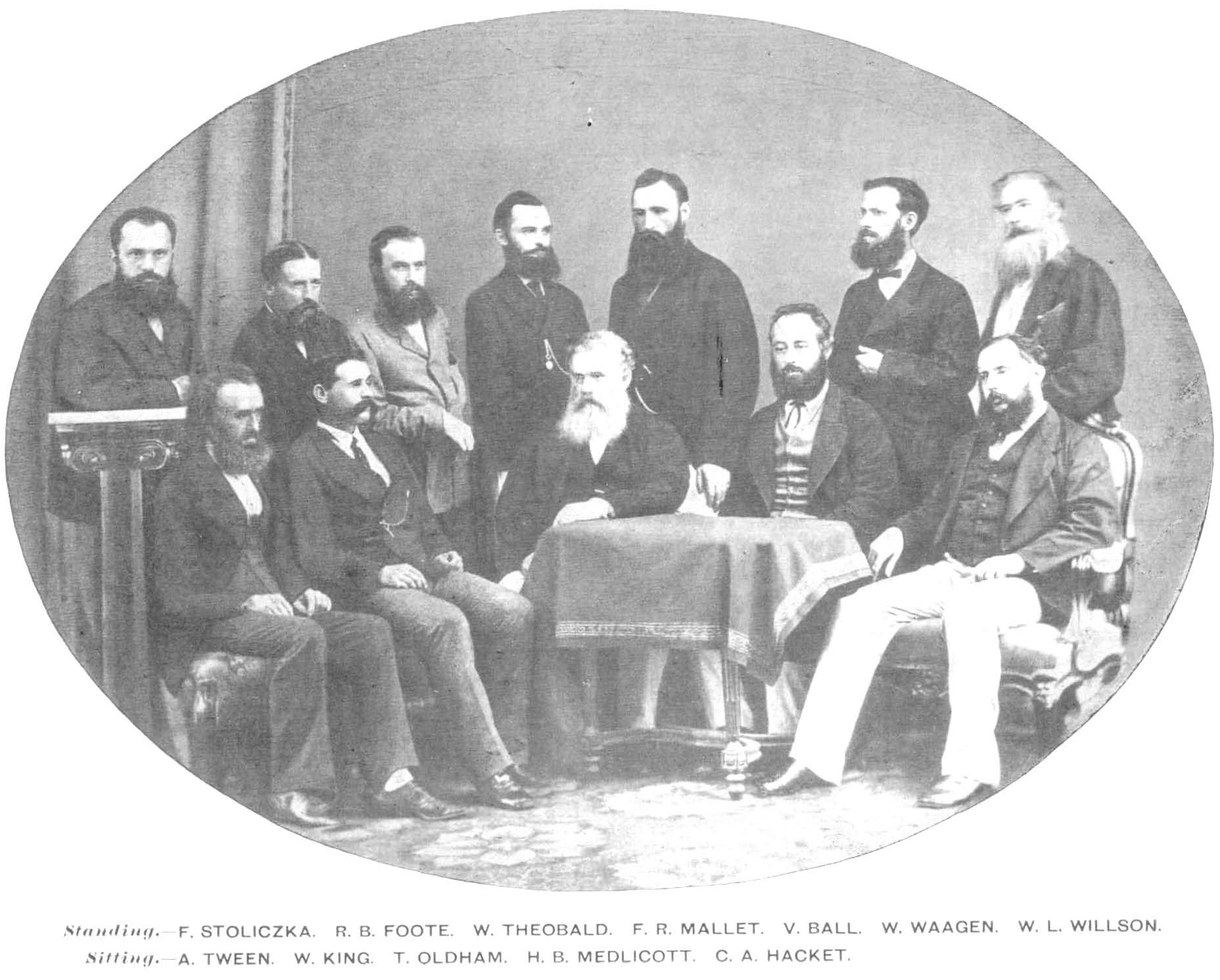 Geological Survey of India in 1870 from Early modern European explorers at the Mountain Jade quarries in the Kun Lun Mountains in Xinjiang, China.